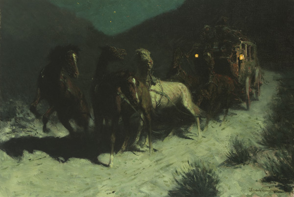 Frederic Remington (1861-1909), A Taint on the Wind, 1906, Oil on canvas, Sid Richardson Museum, Fort Worth, Texas (